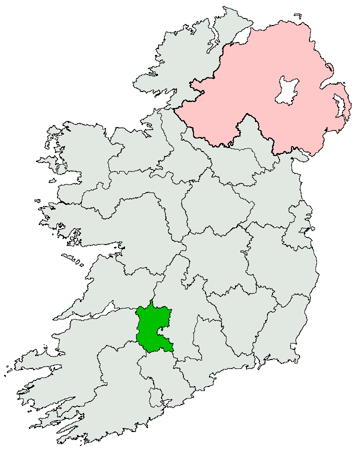 Map depicting the former Irish electoral constituency of Limerick City-Limerick East, created under the Government of Ireland Act 1920 and abolished under the Electoral Act of 1923.